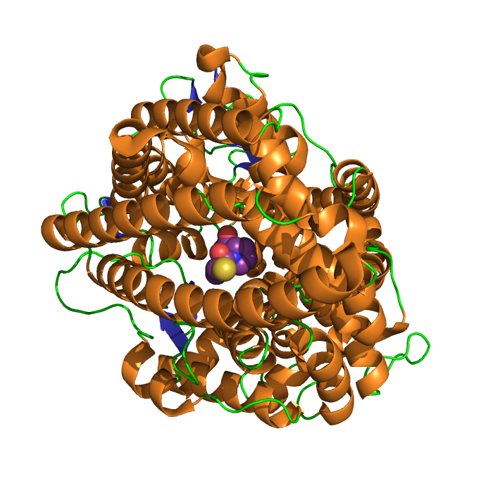 Drosophila Angiotensin Converting Enzyme in complex with Captopril